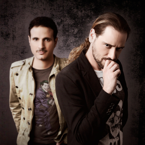 Singer Jacko Eisenberg and musician Eliran Levi in the single "HaSharav Nishbar" from the project "Panasim".